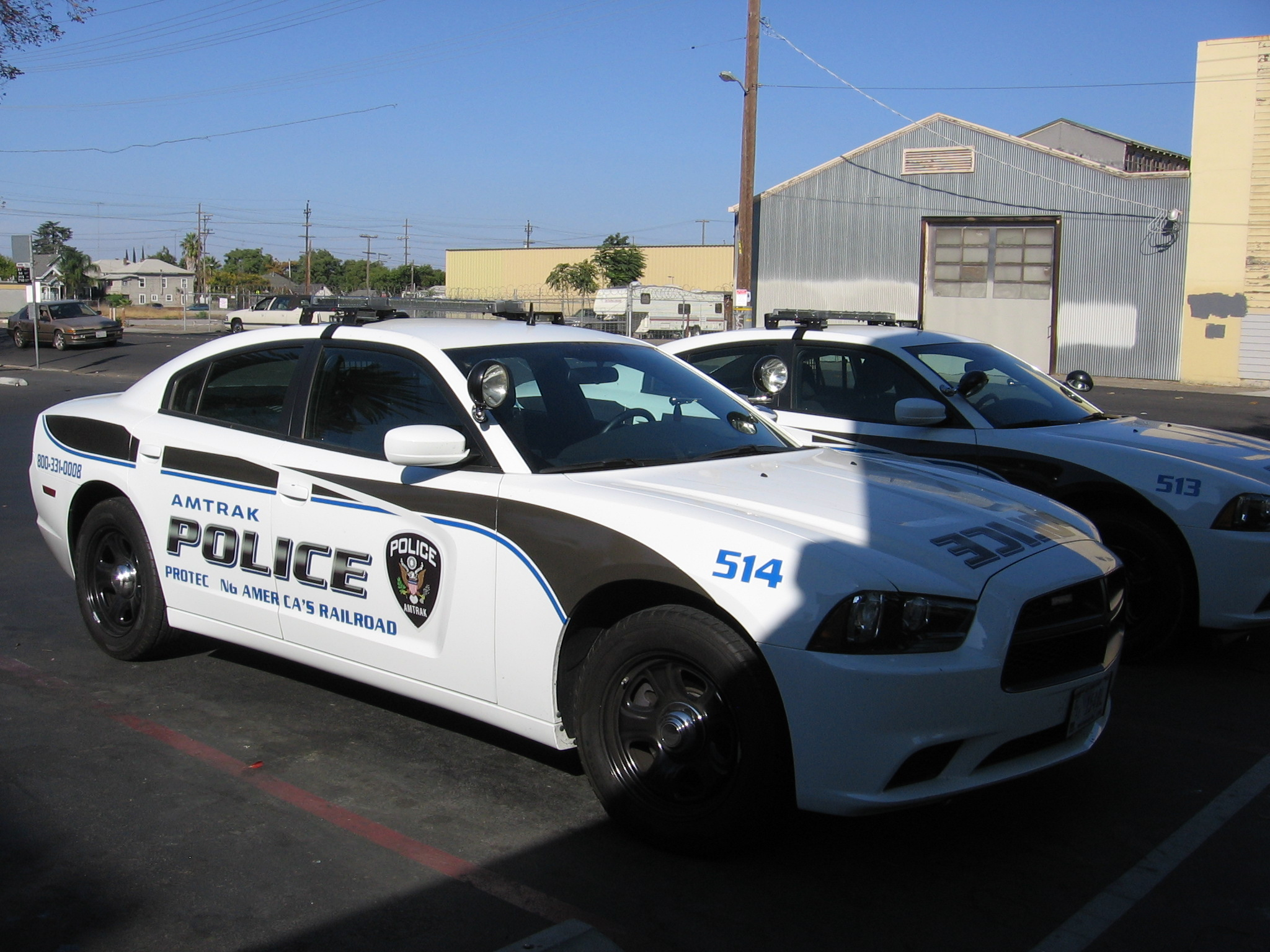 The Stockton – San Joaquin Street Station in Stockton, California, USA.